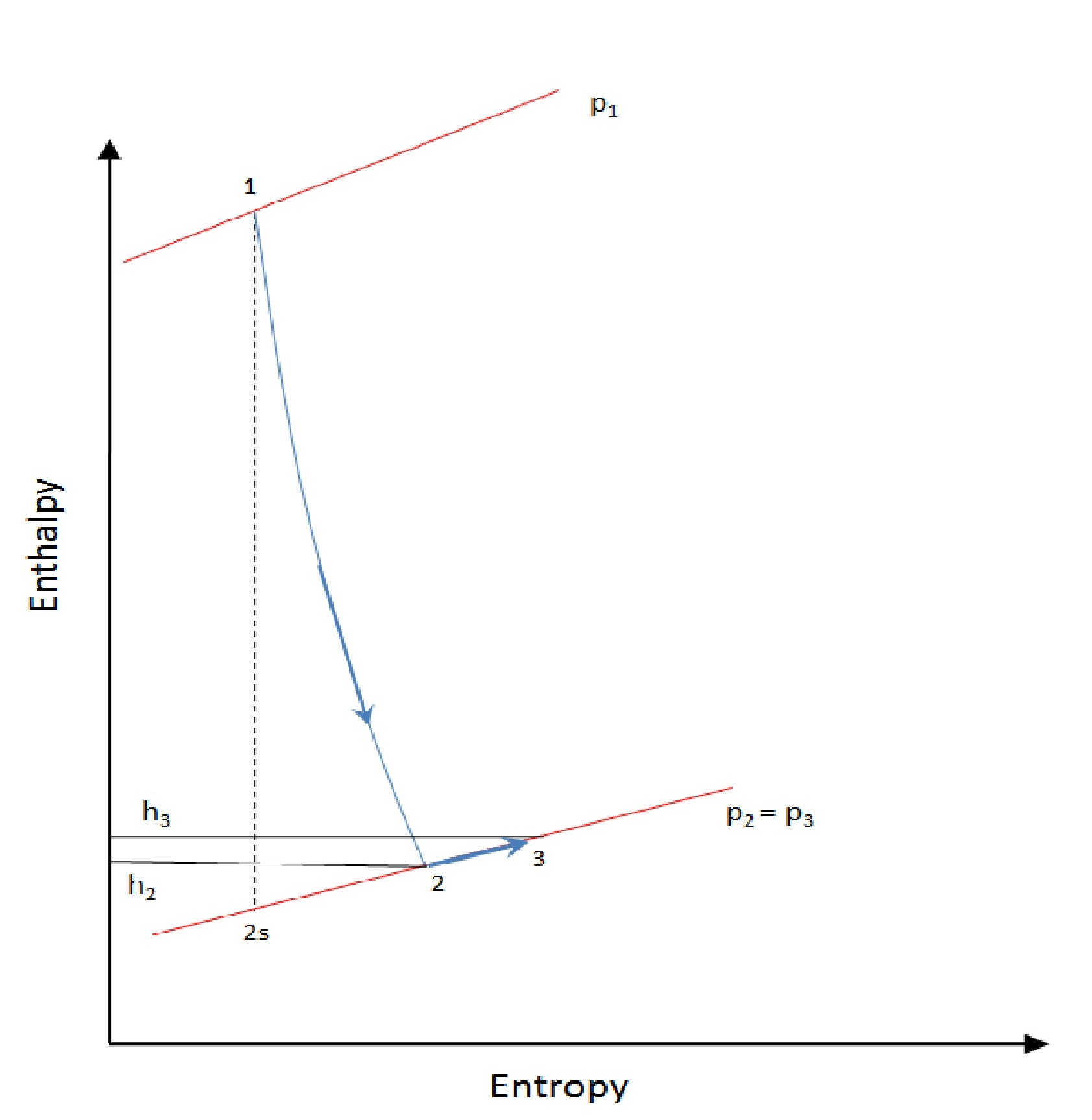 this diagram show the enthalp vs entropy for the case when degree of reaction =0, in a turbine.